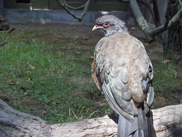 Species Ortalis canicollis Family Cracidae